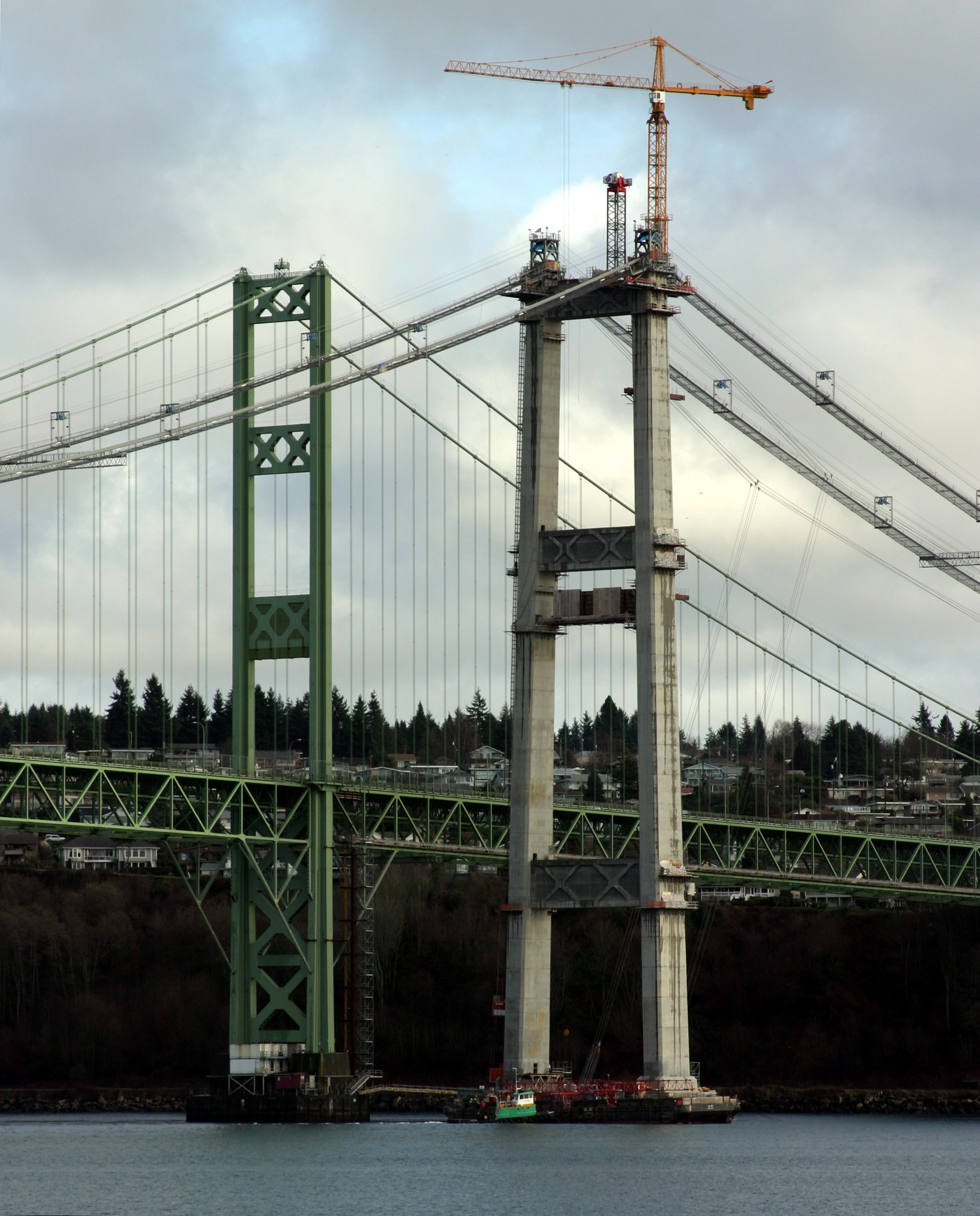 The south towers of the Tacoma Narrows Bridge.